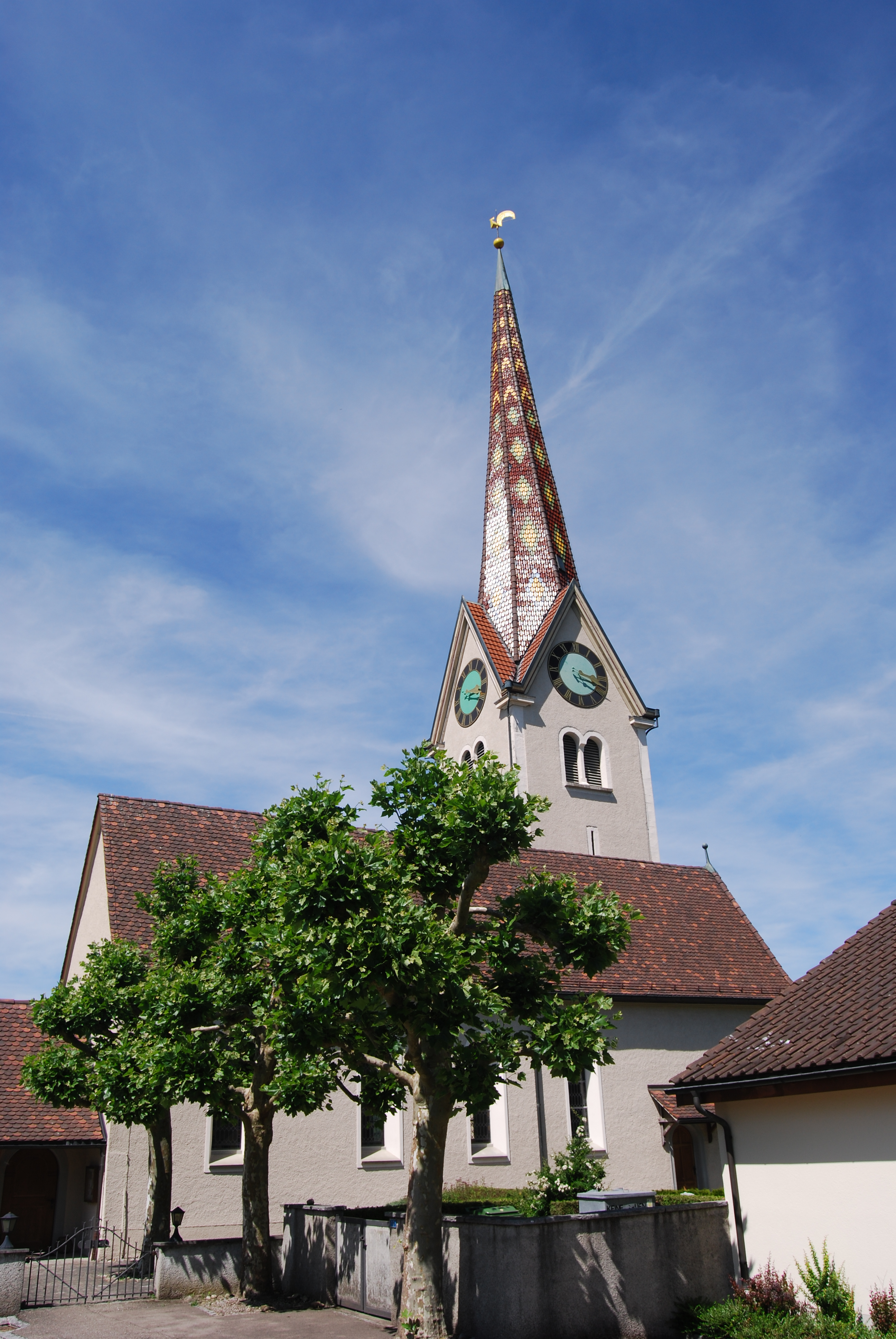 Protestant church of Affeltrangen, canton of Thurgovia, Switzerland